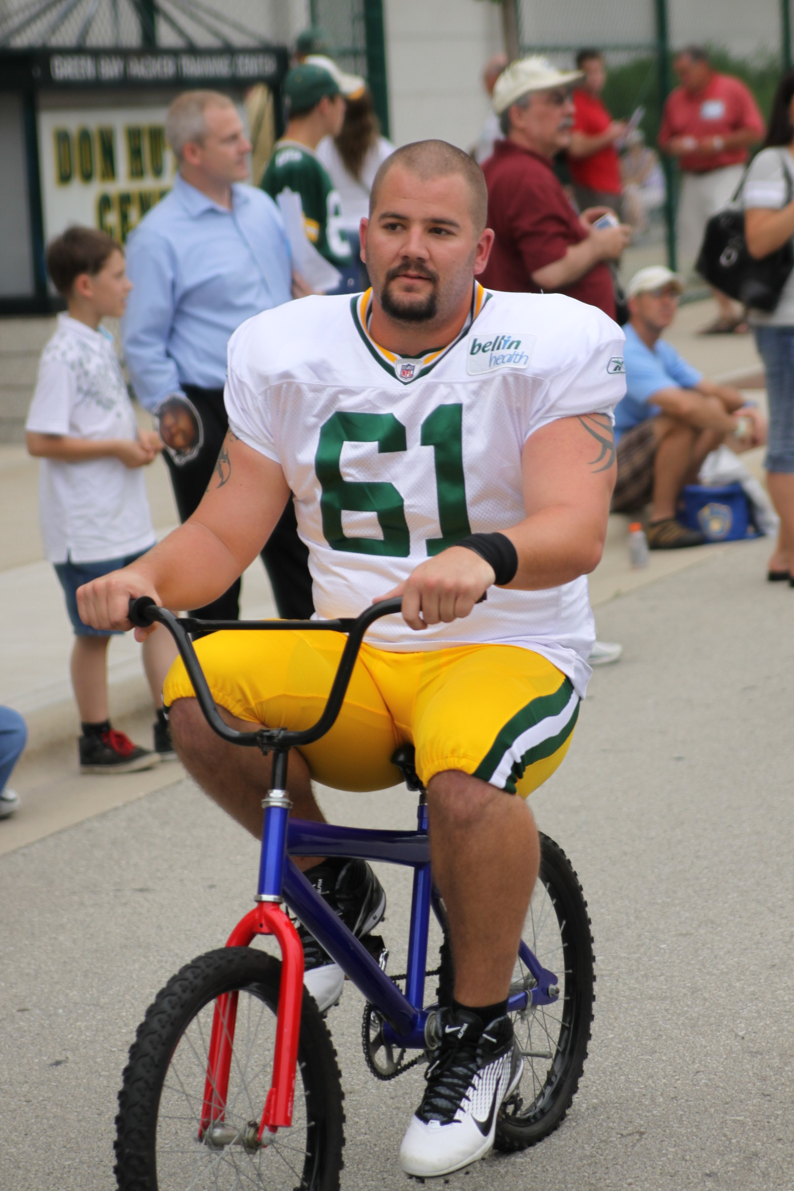 Brett Goode, riding a fan’s bicycle at pre-season training camp, Green Bay, Wisconsin, August 1, 2011